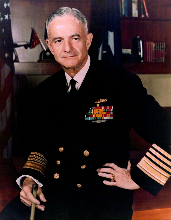 Admiral John S. McCain, Jr. in an undated official portrait.